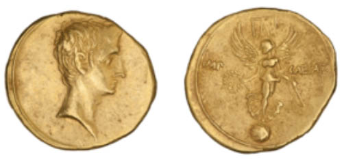 Aureus of August RIC I Augustus 268